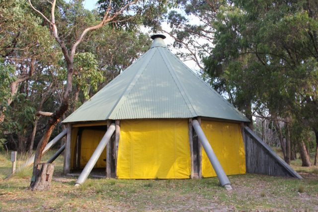 Penders: 'The Barn', designed by Roy Grounds in the early 1960s as minimalist accommodation for his family at Penders, has inspired generations of architecture students.